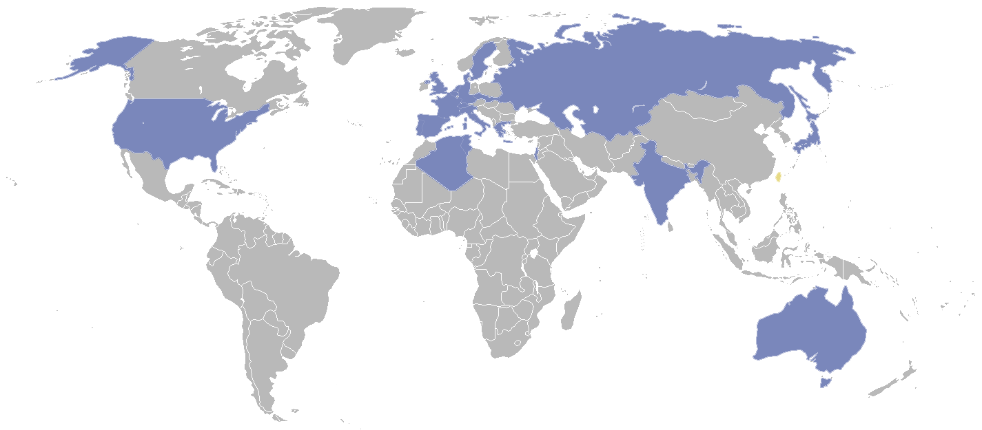 Countries participating in the competition for the Golden Lion 1989 (incl. coproduction countries)